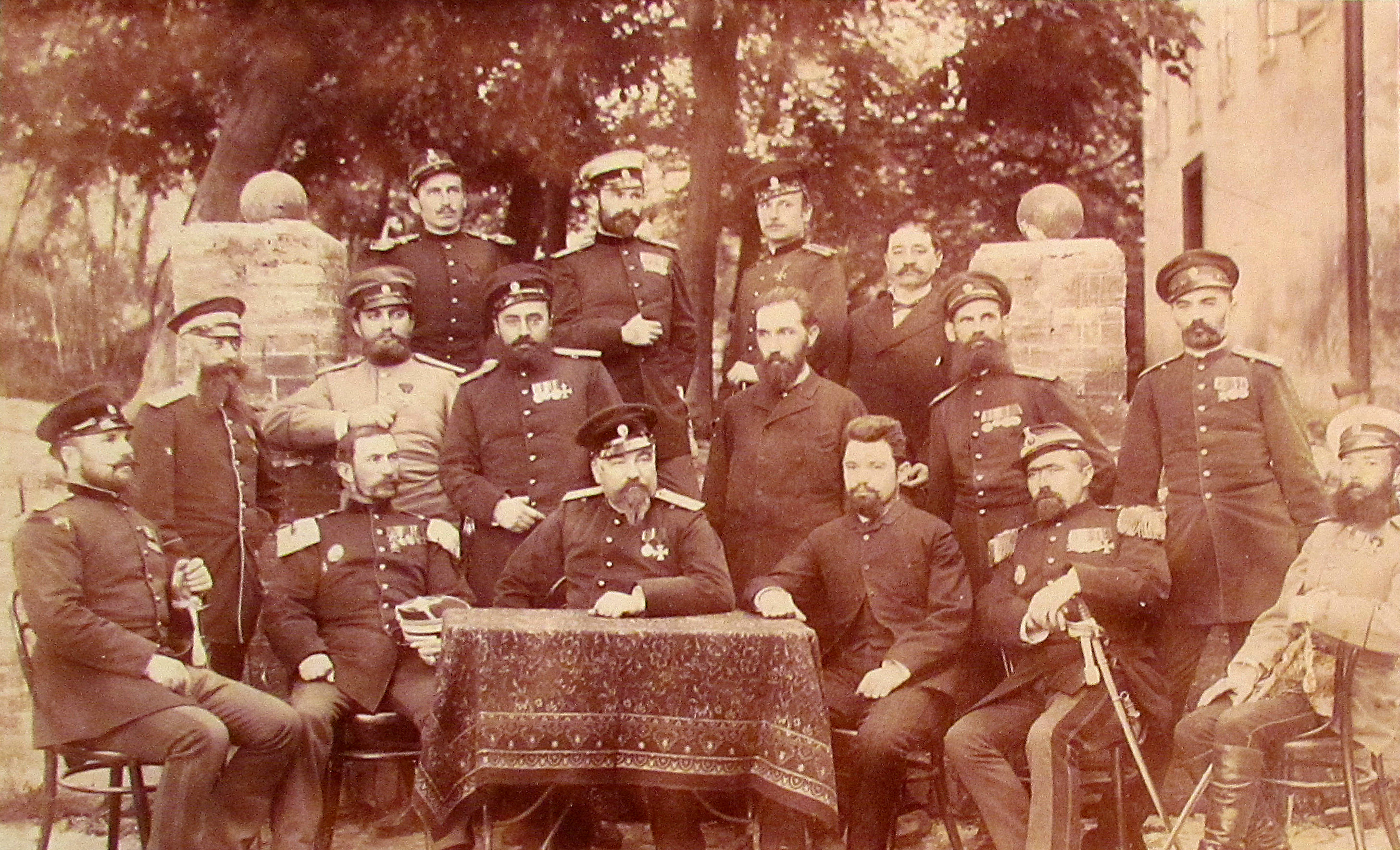 Staff of Military Academy (Serbia) 1888